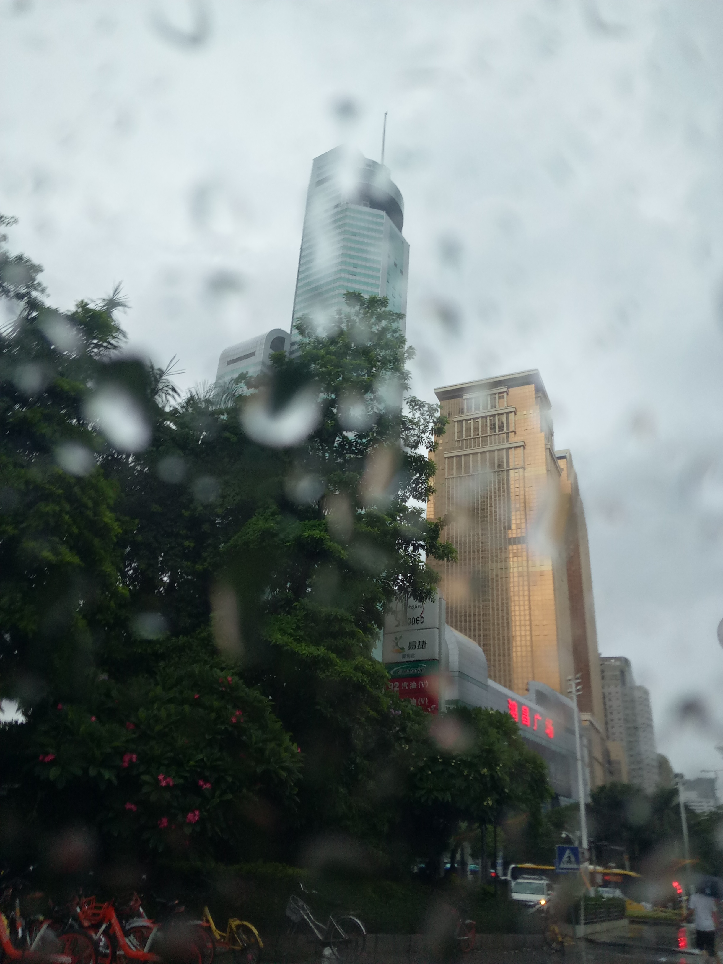 Taken the same way as my other photo that I just uploaded.